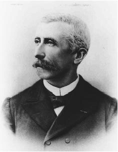 French psychologist Théodule Ribot (1839-1916)